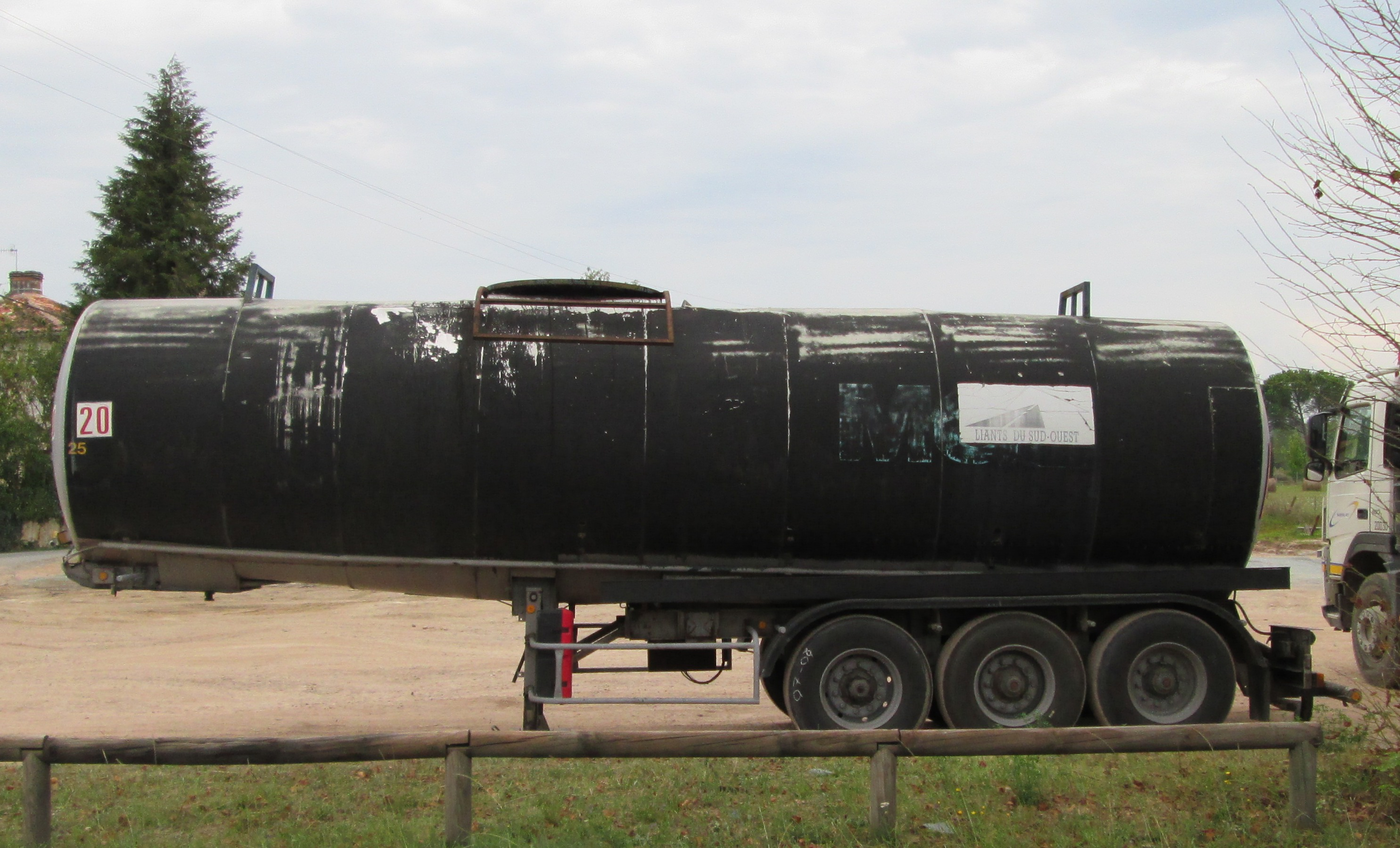 Insulated tank for bitumen (stored at 67 °C) on semi-trailer.